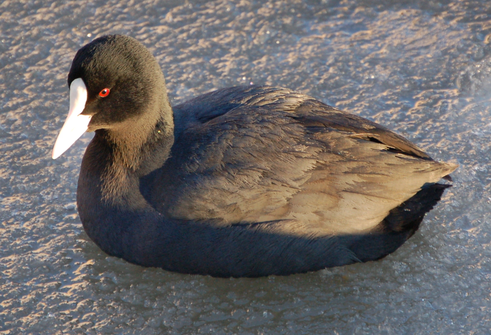 Eurasian Coot, Fulica atra, Larvik Norway January